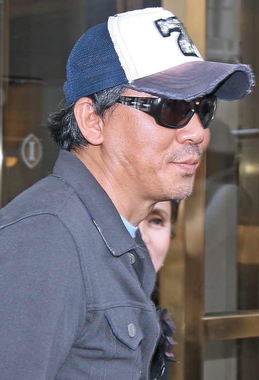 Kim Ji-woon at the 2008 Toronto International Film Festival.